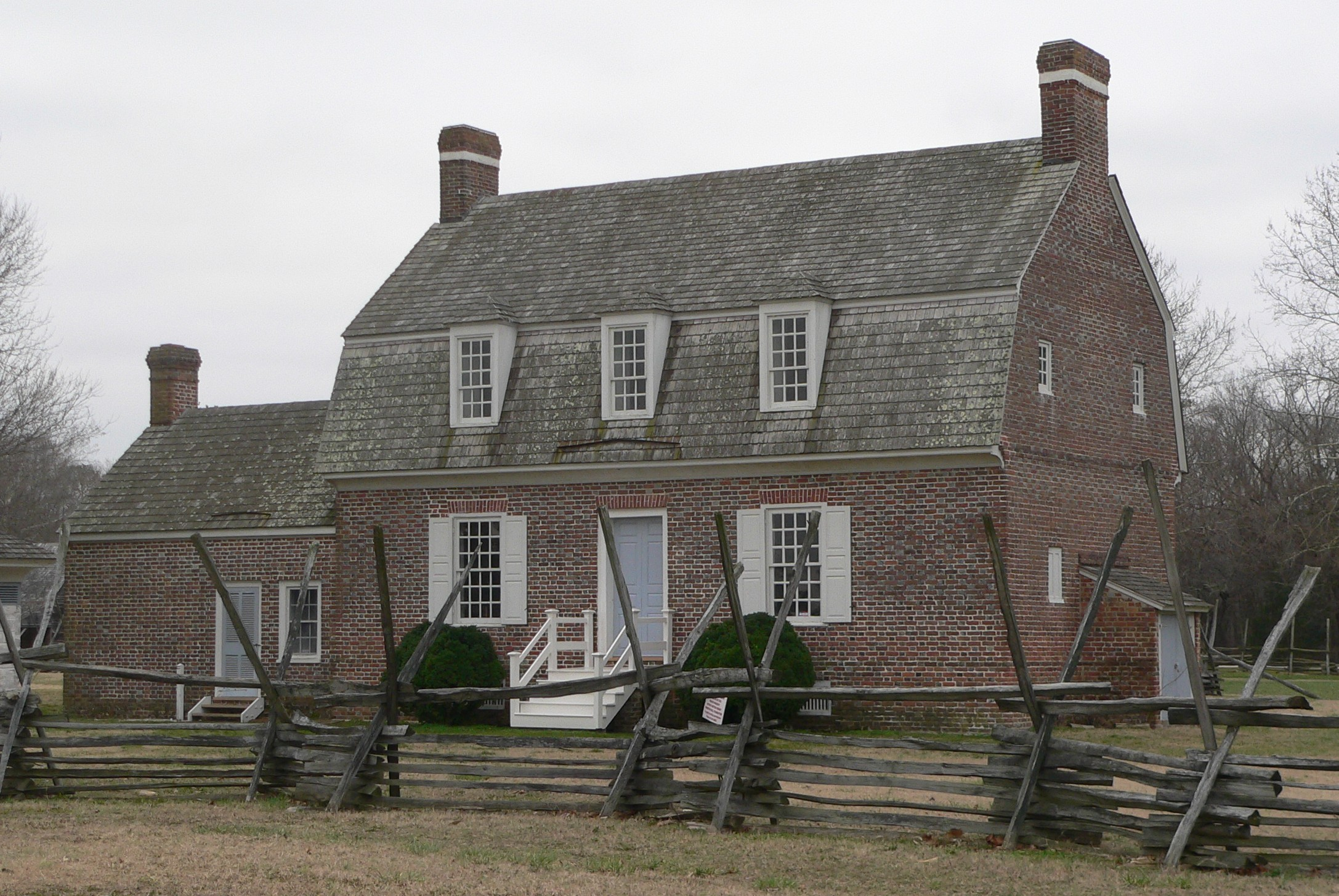 Pemberton Hall, located in Pemberton Historical Park near Salisbury, Maryland; seen from the northwest.